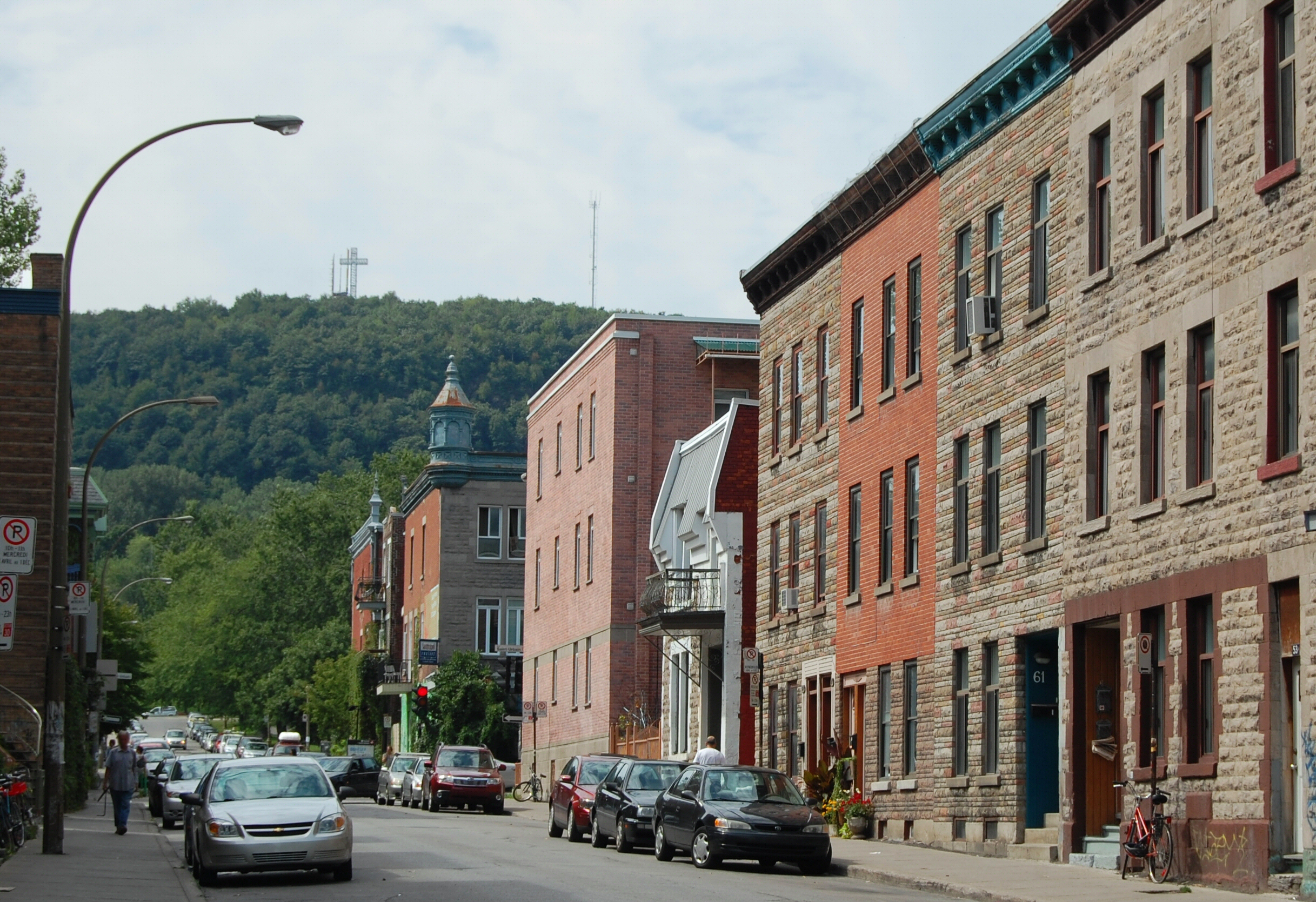 The Plateau Mont-Royal neighborhood, at the corner of Clark street and Duluth avenue, in Montreal. In the background, Mount Royal and its cross